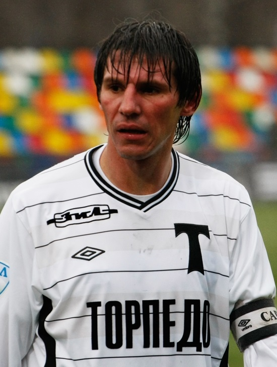 Malygin Aleksandr Vladimirovich